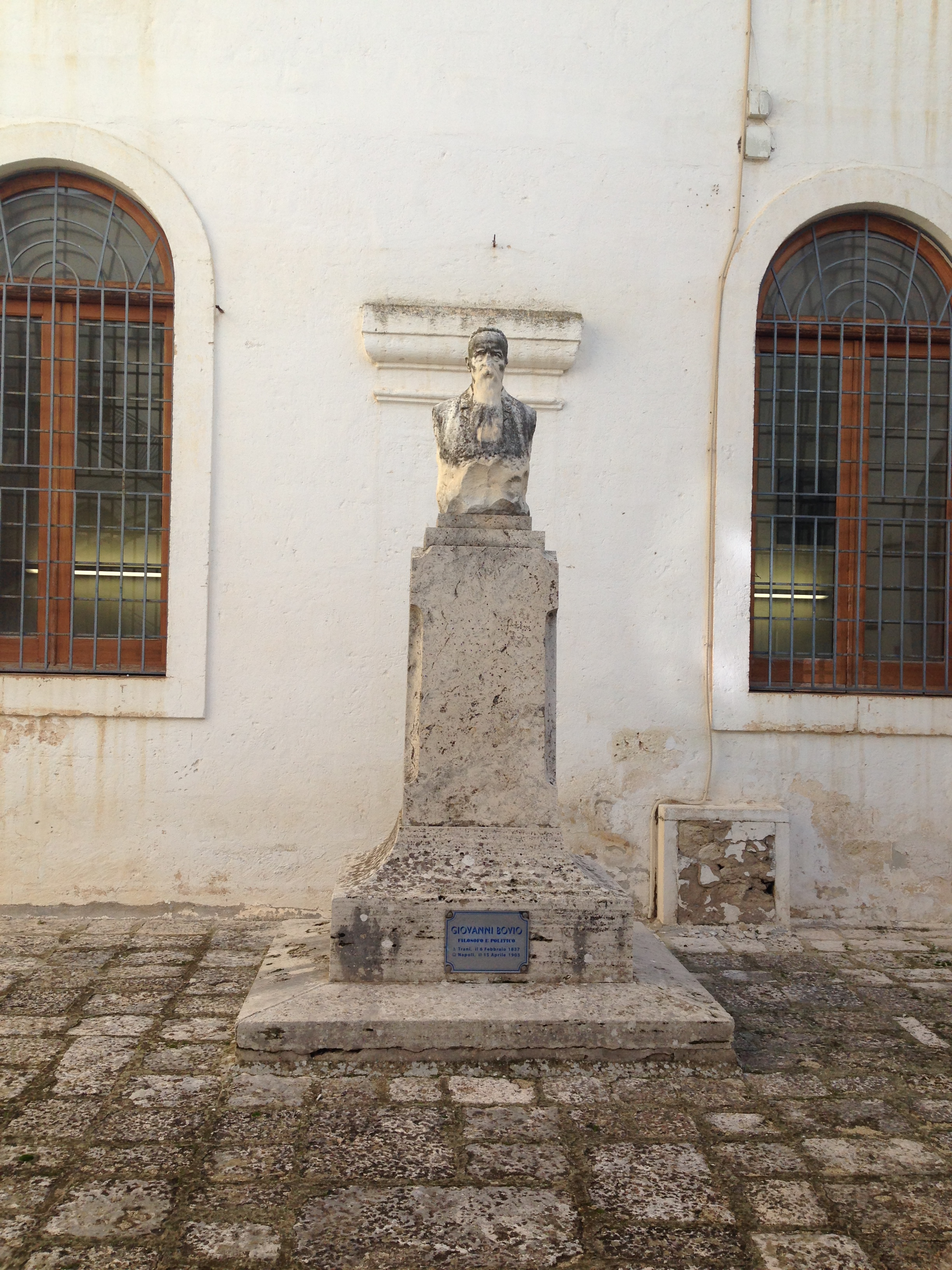 Givanni Bovio's sculpture located inside Liceo classico Cagnazzi - Altamura - Italy